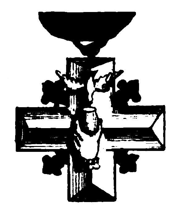 Symbol of the Order of the Holy Vial